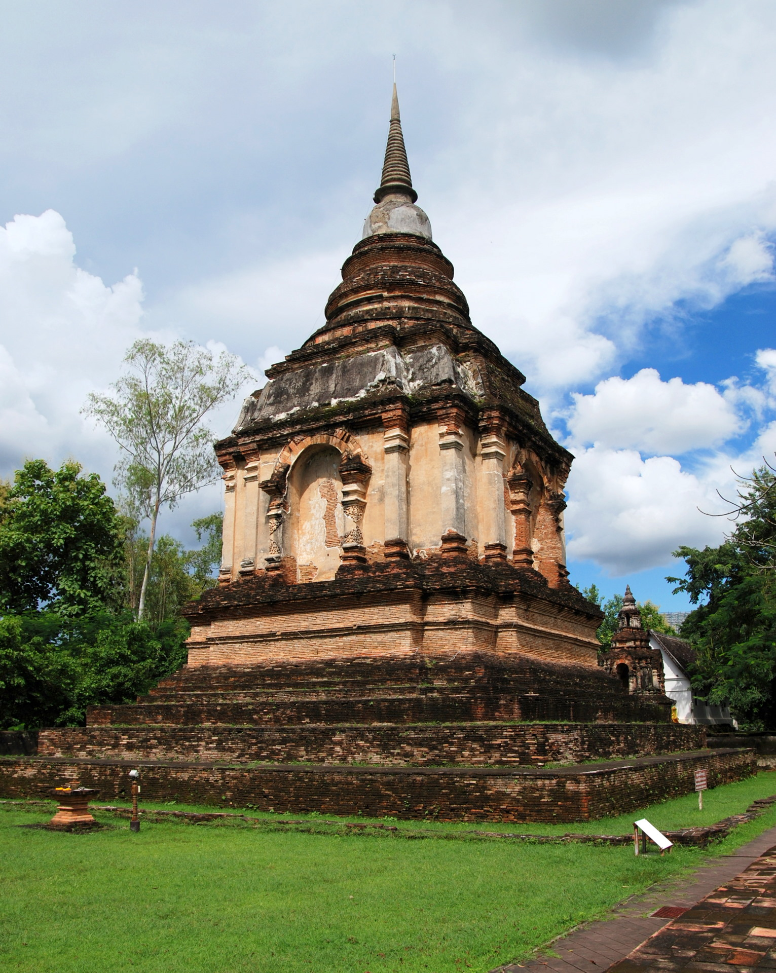 Wat Chet Yot (literally: Seven Spired Temple; Thai script:วัดเจ็ดยอด) The chedi containing the ashes of King Tilokarat, the founder of Wat Chet Yot.